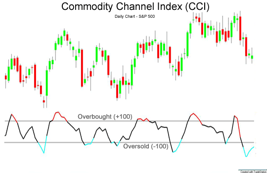 I made it myself, so I am "saying so"